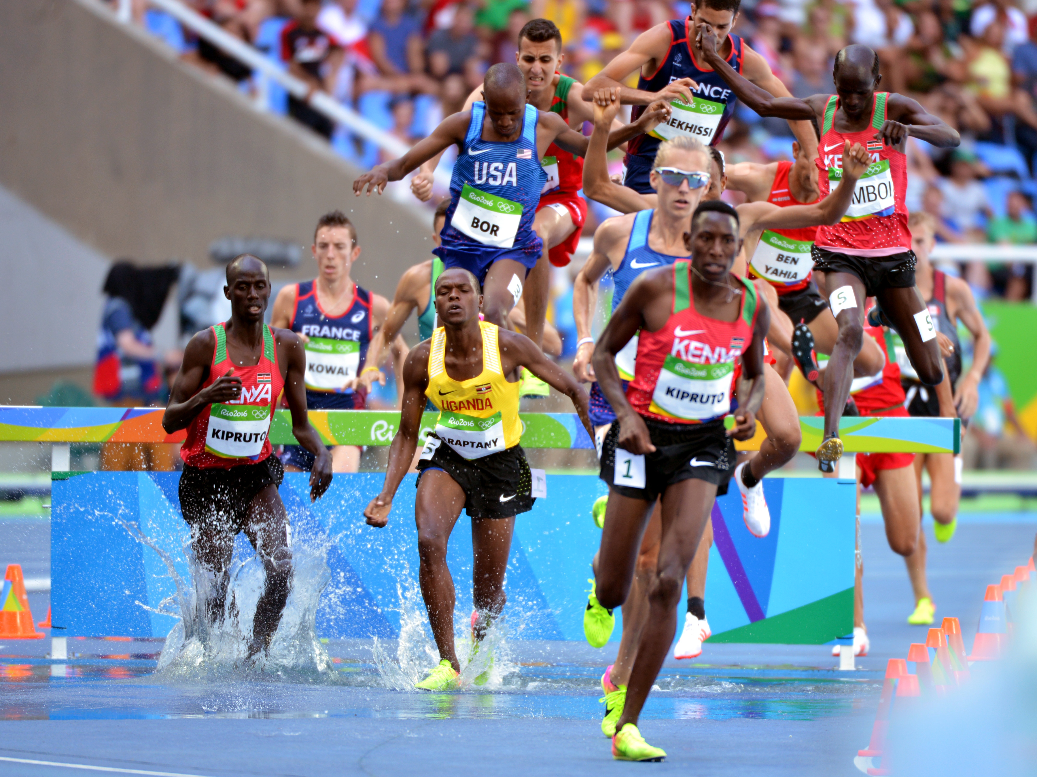 Sgt. Hillary Bor, a Soldier in the U.S. Army World Class Athlete Program stationed at Fort Carson, Colo., runs to an eighth-place finish in the men's 3,000-meter steeplechase with a personal-best time of 8 minutes, 22.74 seconds on Aug. 17 at the 2016 Rio Olympic Games in Rio de Janeiro. Brimin Kiprop Kipruto of Kenya won the race in an Olympic record time of 8:03.28, followed by silver medalist Evan Jager (8:04.28) of Team USA and bronze medalist Ezekiel Kemboi (8:08.47) of Kenya. U.S. Army photo by Tim Hipps, IMCOM Public Affairs #SoldierOlympians #ArmyOlympians #ArmyTeam #GoArmy #TeamUSA #ArmyStrong #RoadToRio